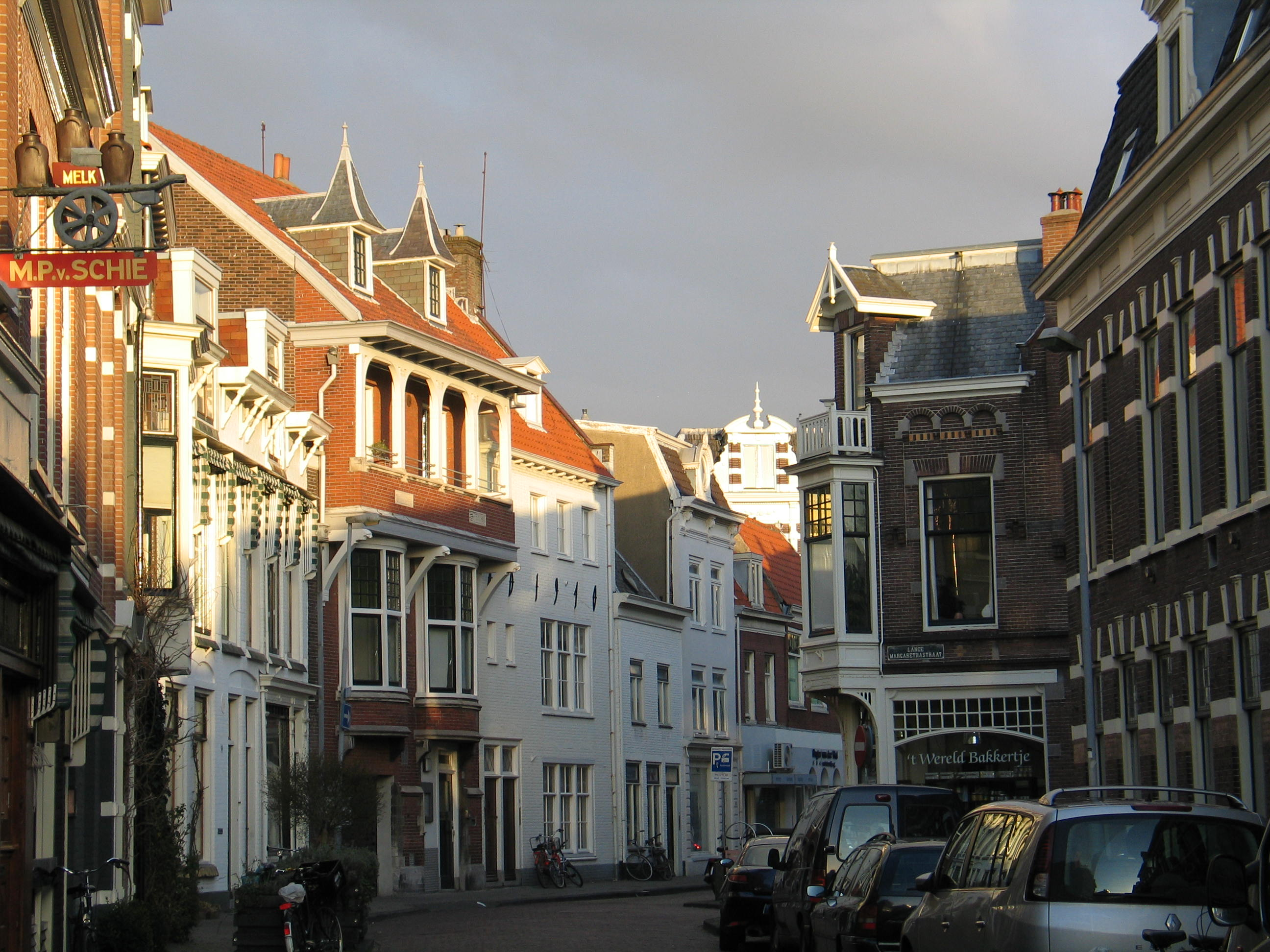 Nassaustreet in Haarlem